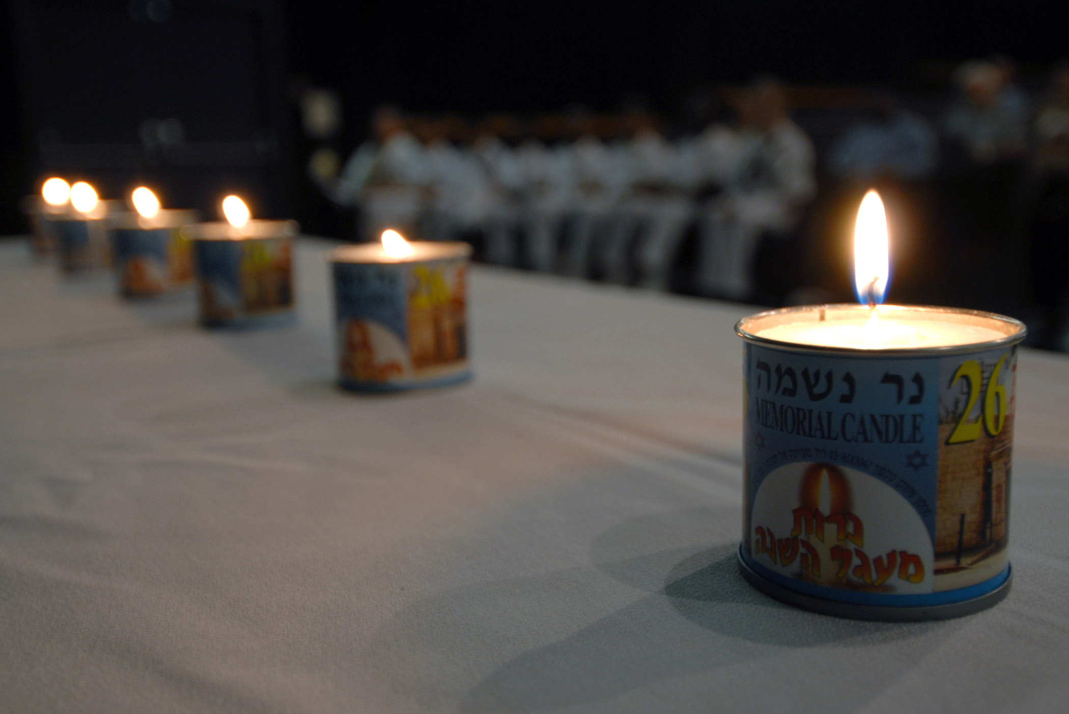 PEARL HARBOR, Hawaii (April 26, 2007) - Six memorial candles are lit during a Holocaust Remembrance Day ceremony at Sharkey Theater on board Naval Station Pearl Harbor. The six candles were lit during the opening remarks of the remembrance observation to commemorate the lives of more than 6 million Jews that were lost during the Holocaust. U.S. Navy photo by Mass Communication Specialist 1st Class James E. Foehl (RELEASED)